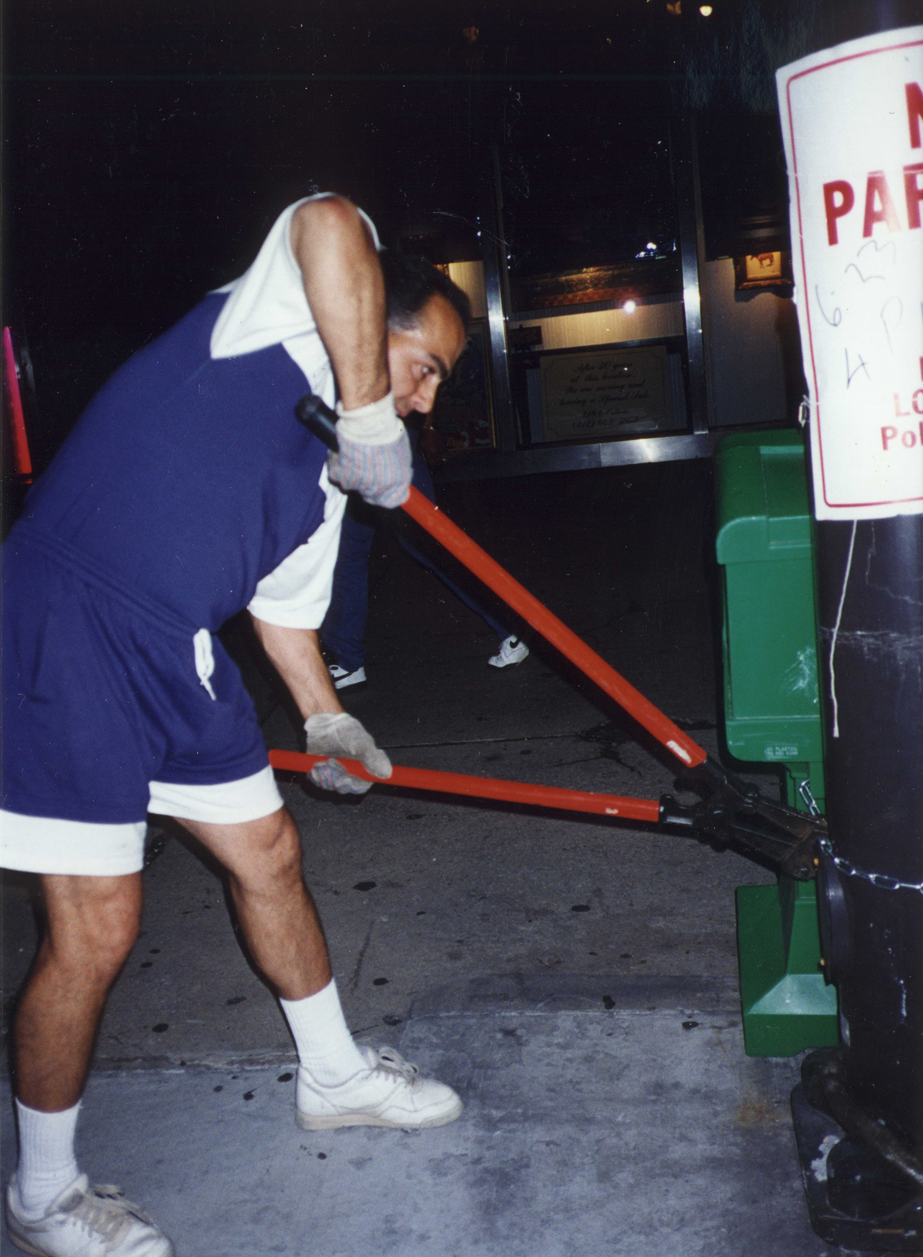 The photo of a City of Chicago Streets & San. worker cutting the chain of a Chicago Jewish Star newsbox opposite the Art Institute; see Jewish Star #76; Editor & Publisher Aug. 6, 1994, p. 16-7; Chicago Advertising & Media, Sept. 1, 1994, p. 1 [in color]